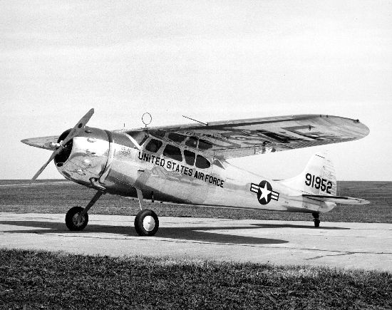 Cessna LC-126A (Model 195) liaison aircraft.